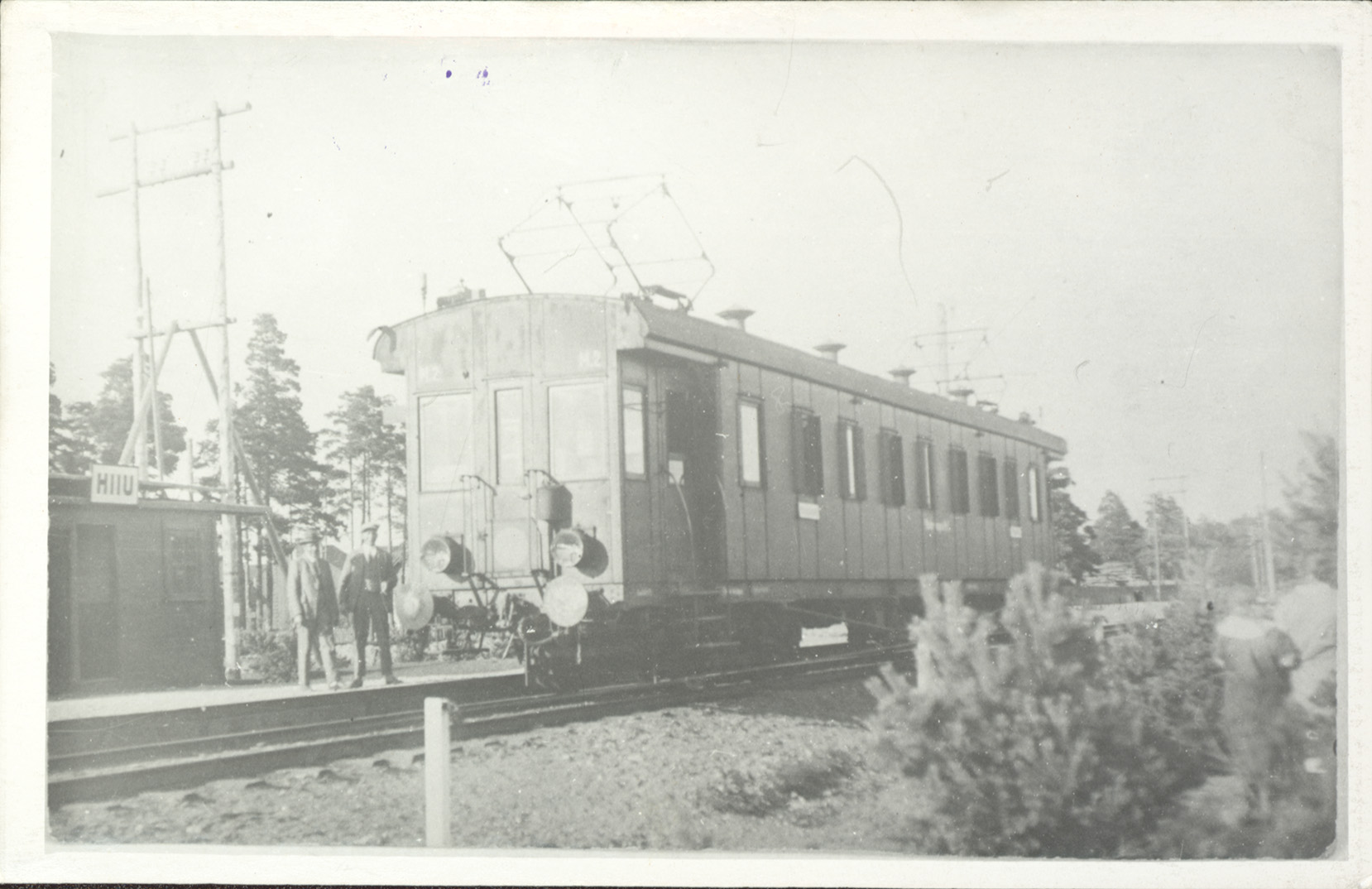 Train in Hiiu railway station